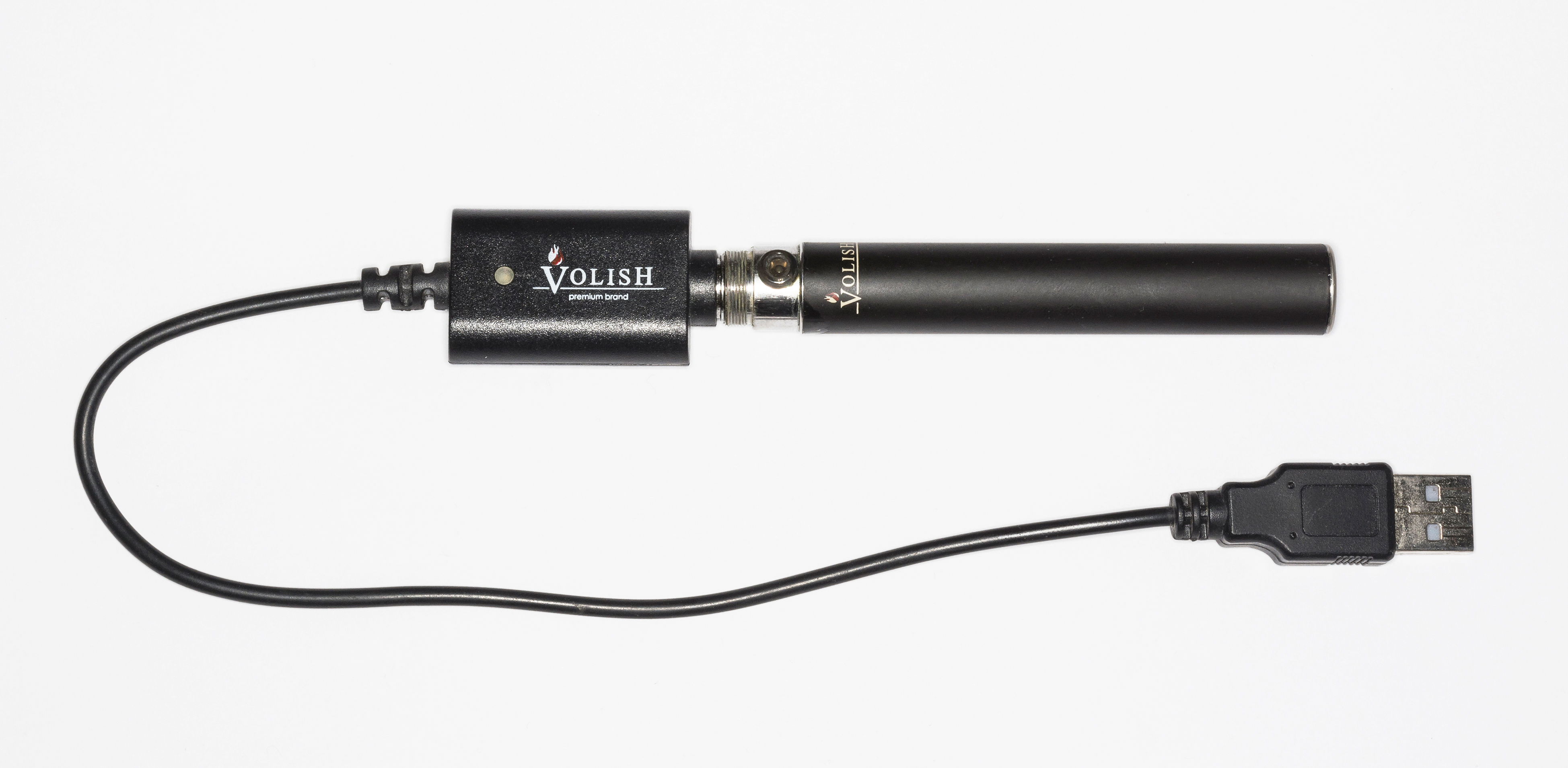 Battery with USB charger, for Volish e-cigarette